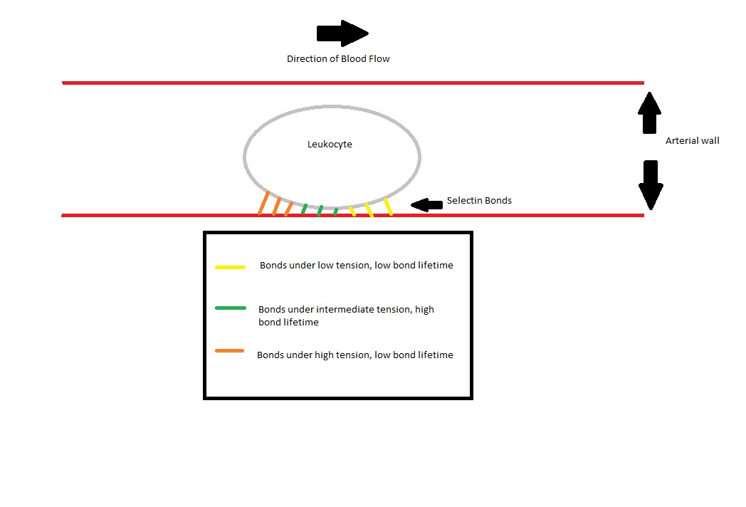 The weak binding of a sling at the leading edge of a rolling leukocyte would initially be strengthened as the cell rolls farther and the tension on the bond increases, preventing the cell from dissociating from the endothelial wall and floating freely in the bloodstream despite high shear forces. However, at the trailing edge of the cell, tension becomes high enough to transition the bond from catch to slip, and the bonds tethering the trailing edge eventually break, allowing the cell to roll further instead of remaining stationary.